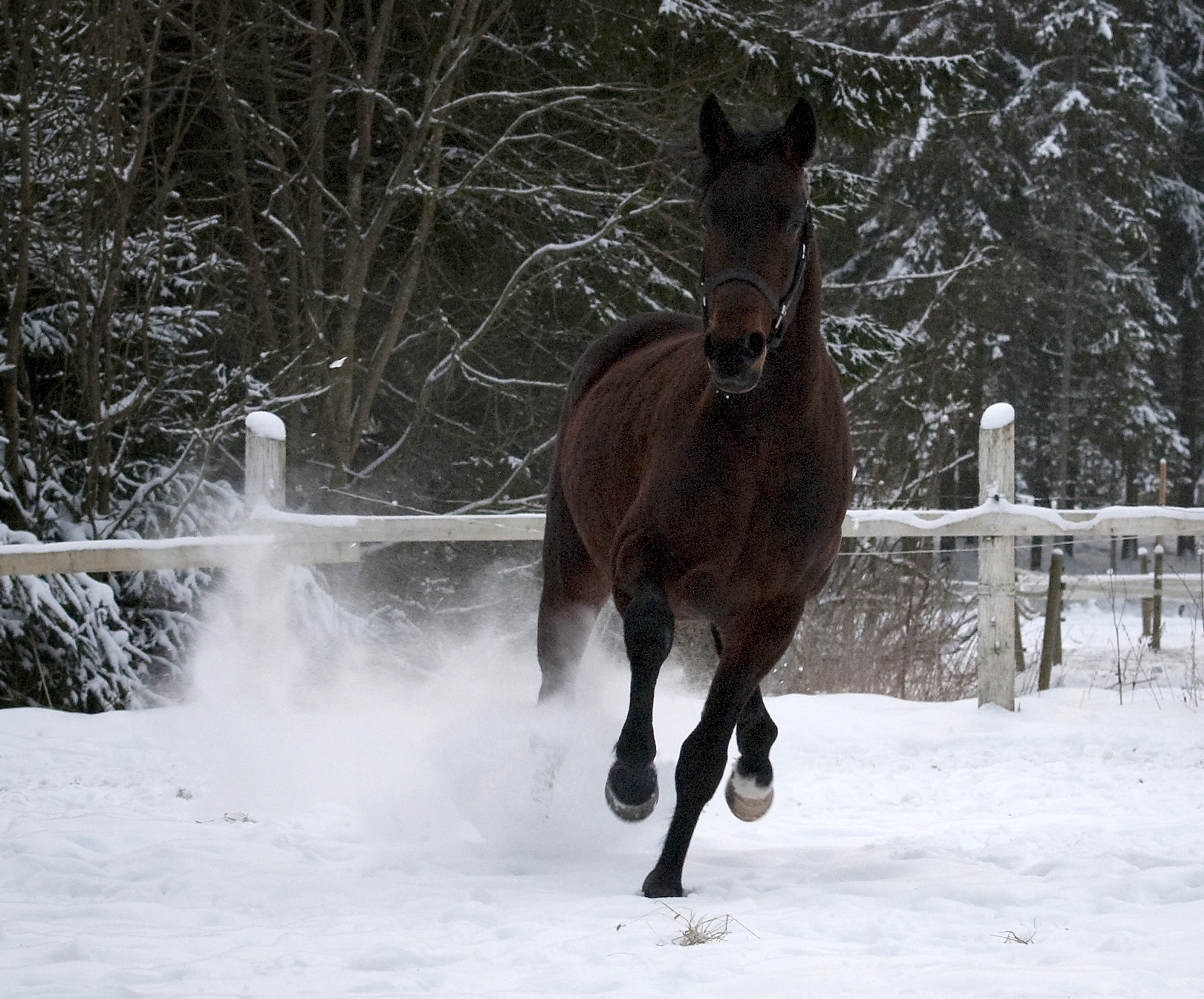 (lots of grain as my D80 struggles with high ISO)